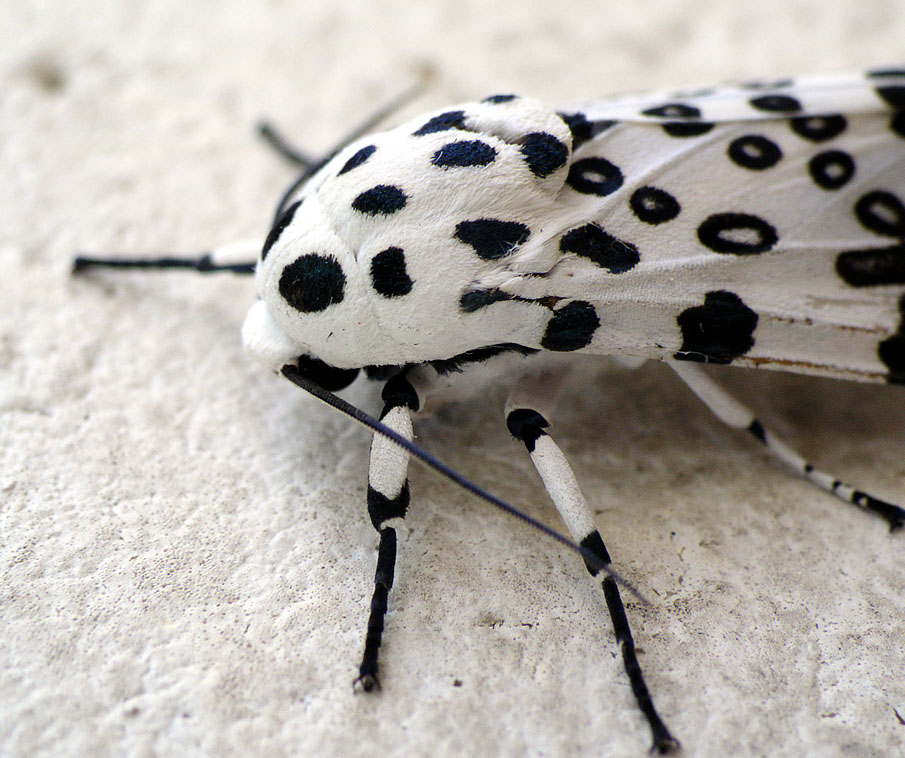 Giant leopard moth (Hypercompe scribonia) previously known as Ecpantheria scribonia I took this at a local gas station. PiccoloNamek 21:07, July 18, 2005 (UTC)